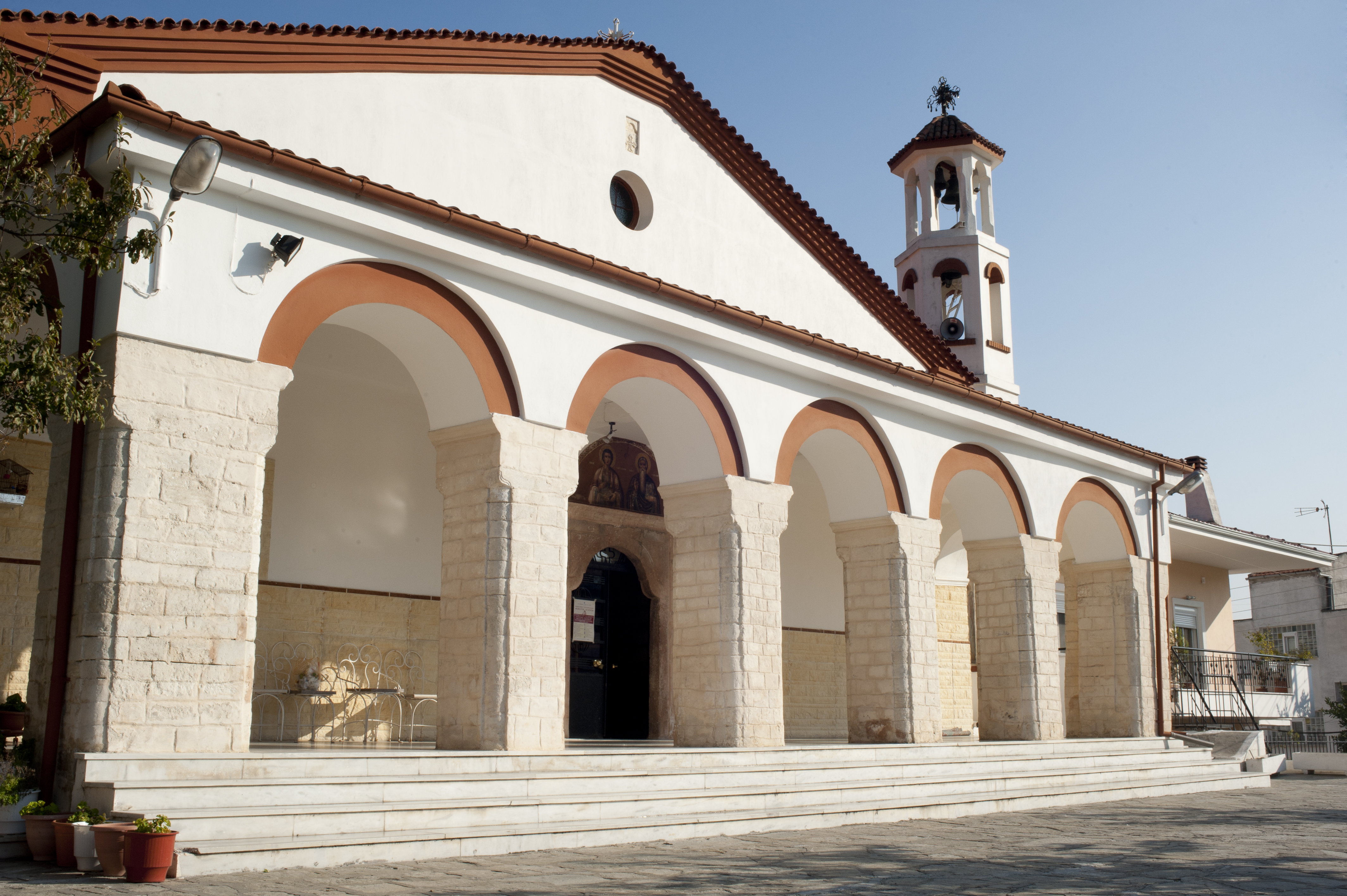 Exterior of the Church of Agios Pantelehmonos Serres Greece.